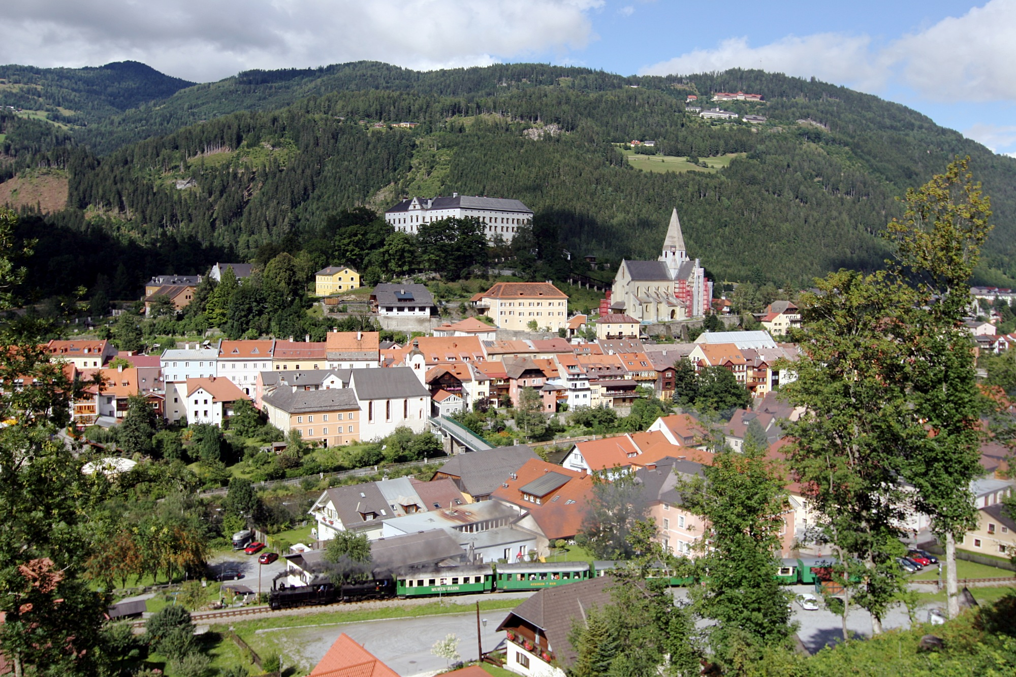 Murau in Styria with a steam special passing on the Murtalbahn